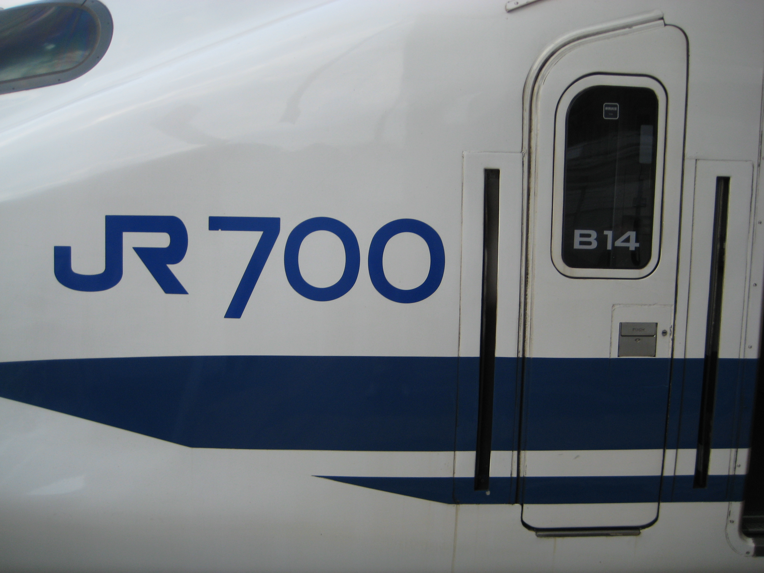 The "JR700" logo on a driving car of JR West 700 series shinkansen set B14 at Okayama Station